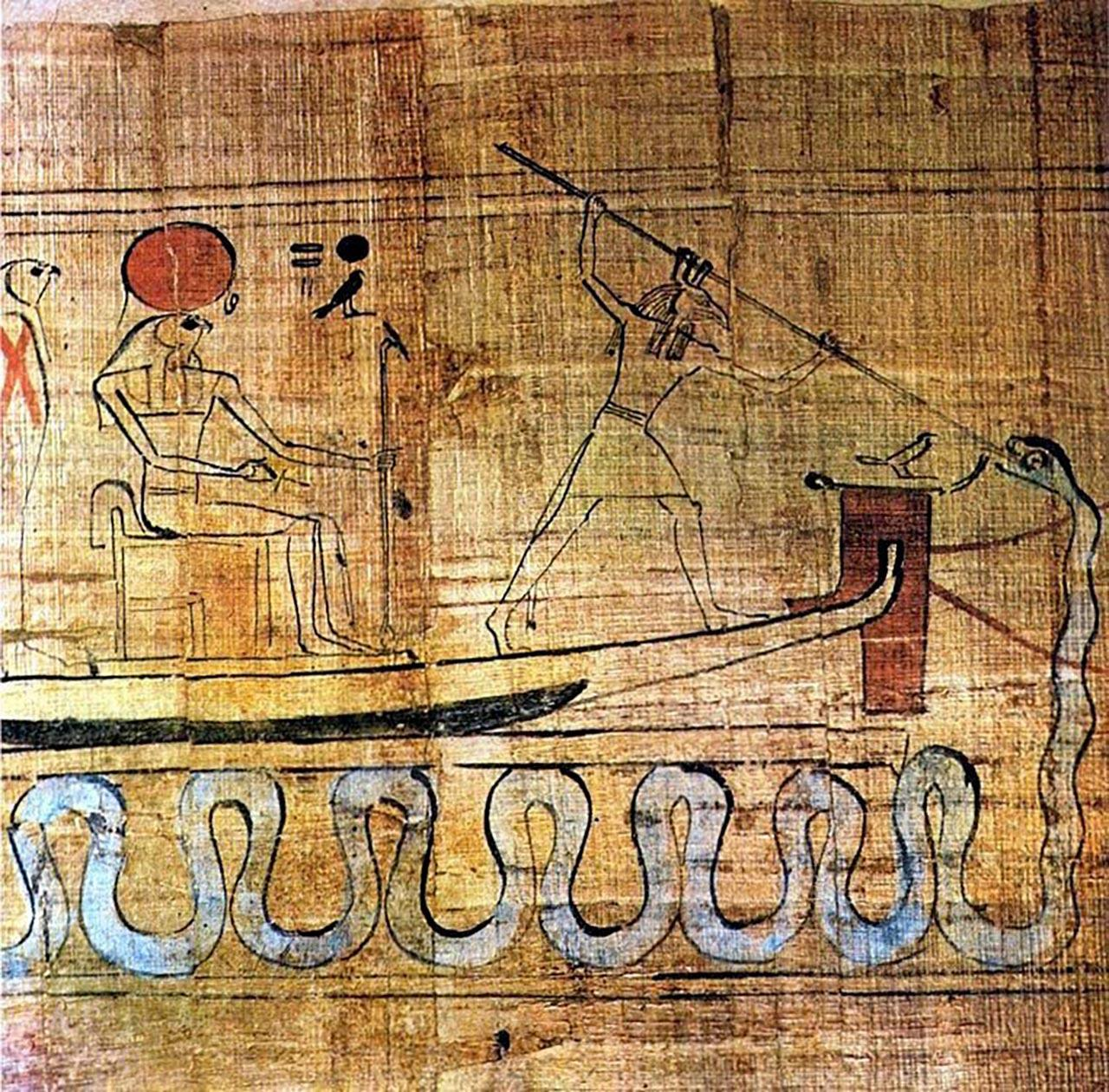 Set killing the demon snake Apep